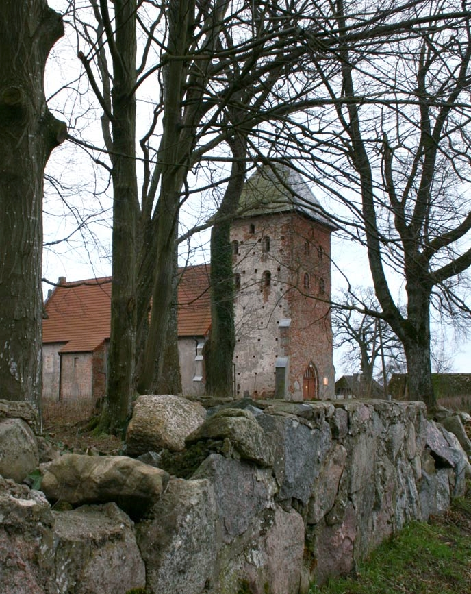 Church of Zębowo